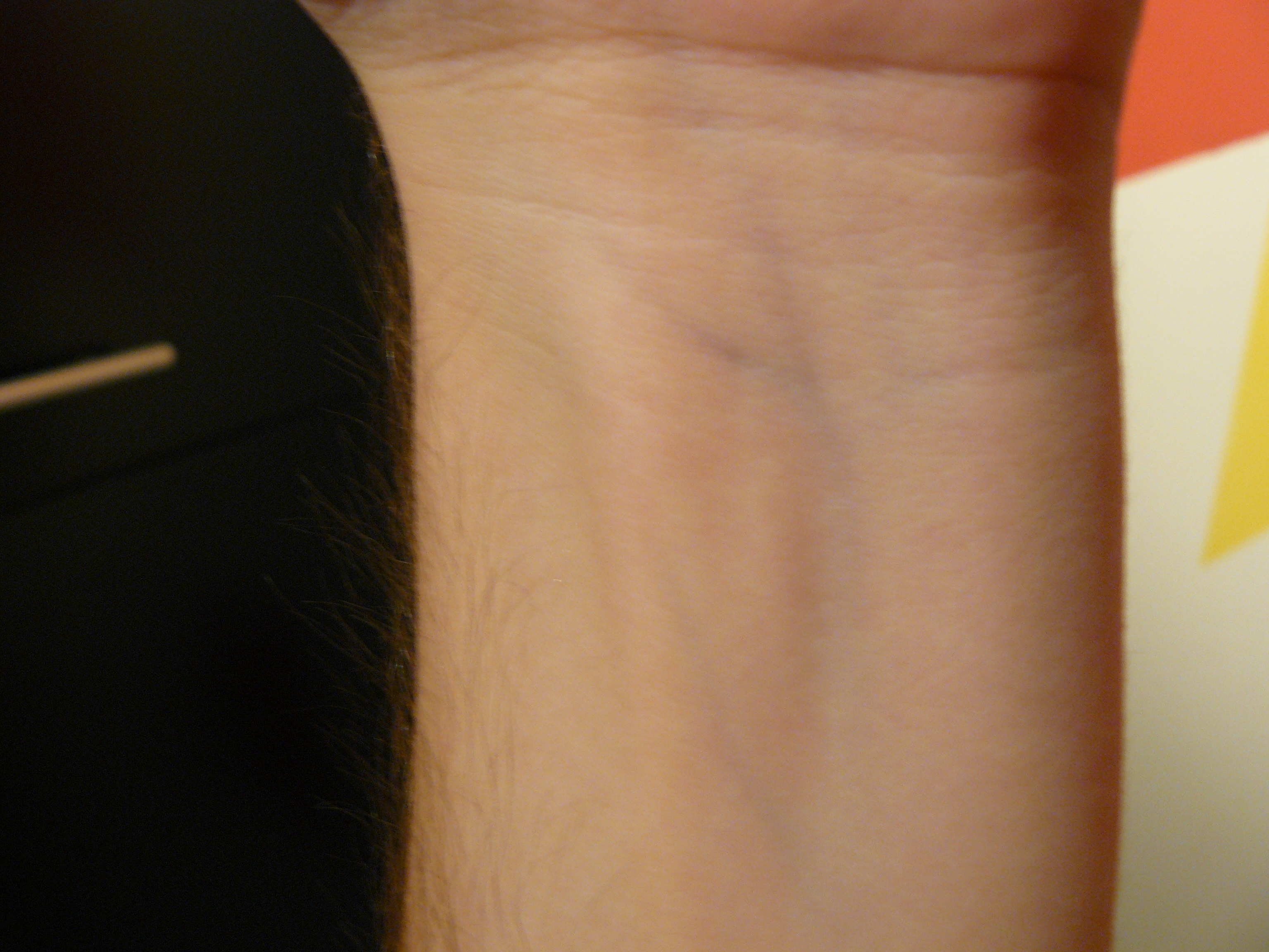 An image of a wrist The blue is caused by the lack of oxygen binding to haemoglobin